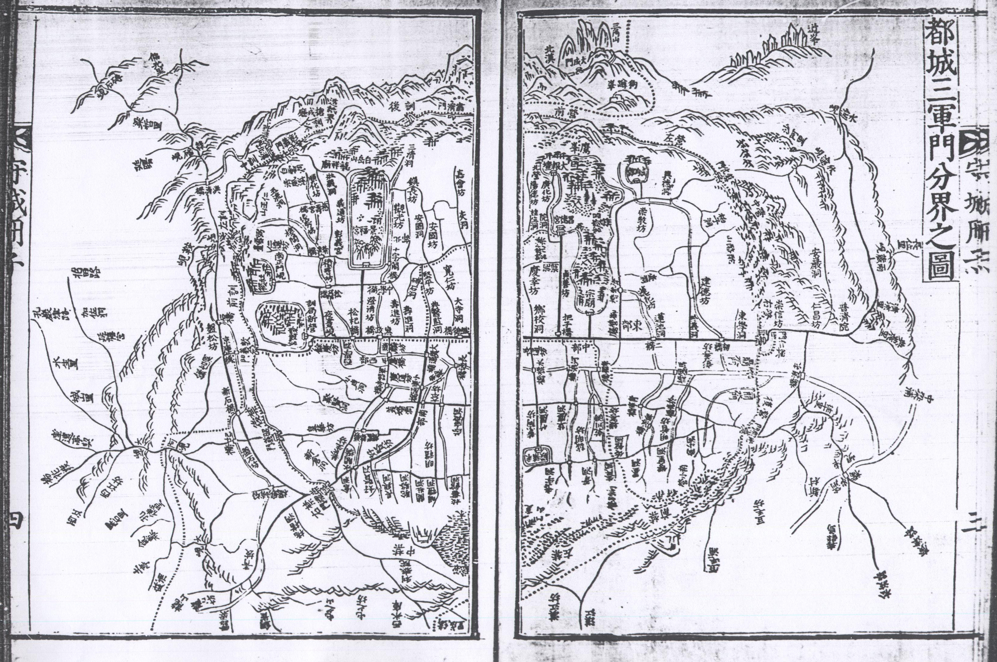 An old Korean map of "Doseong Samgunmu Bungye Jido". I literally means "the map of three military divisions of (current) Seoul". Published in 1751 under the reign of Yeongjo, Gyujang-gak of Seoul Nat'l Univ. conserves it.